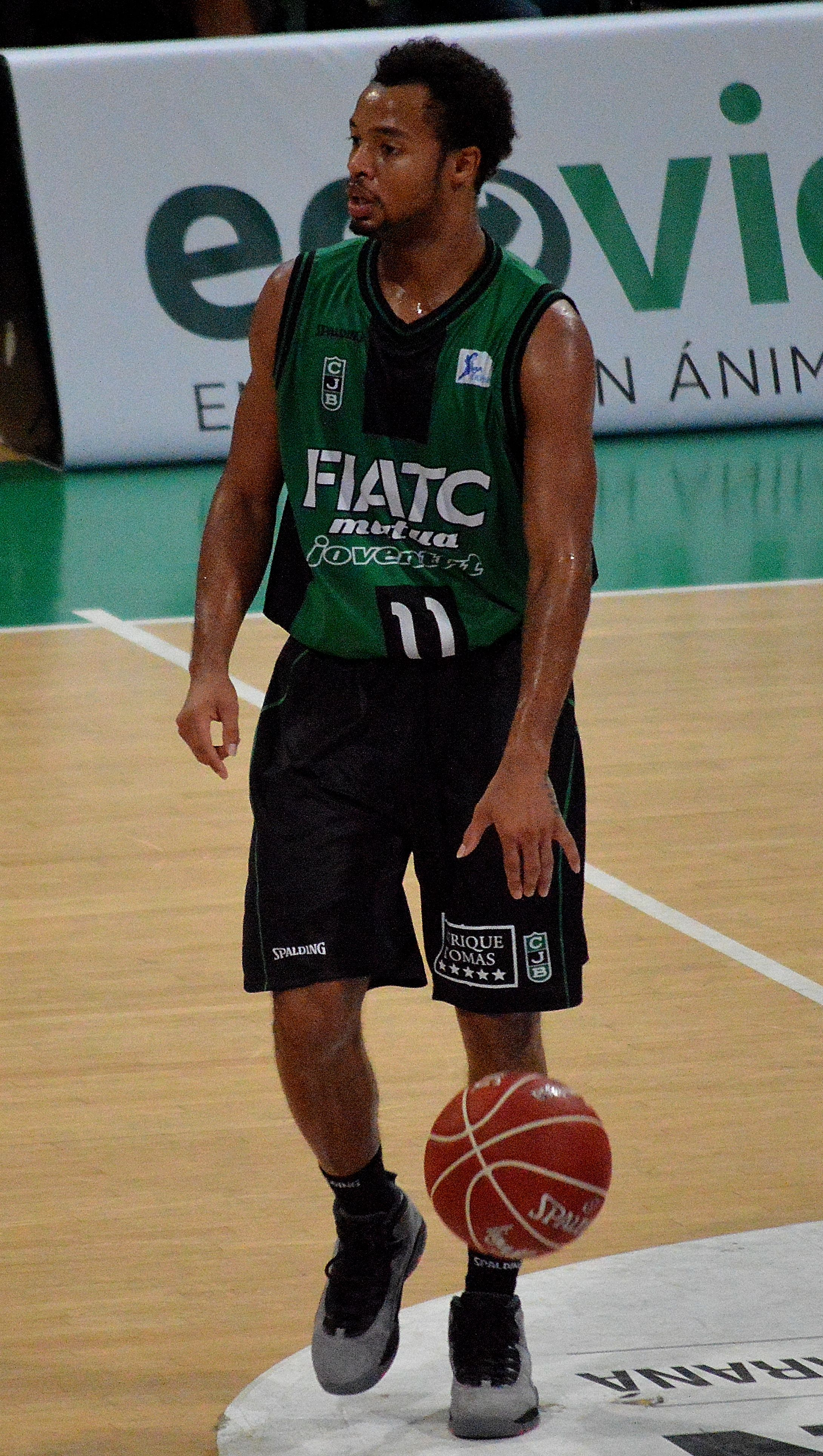 Clevin Hannah playing for FIATC Joventut in the 2014/15 Liga ACB season.